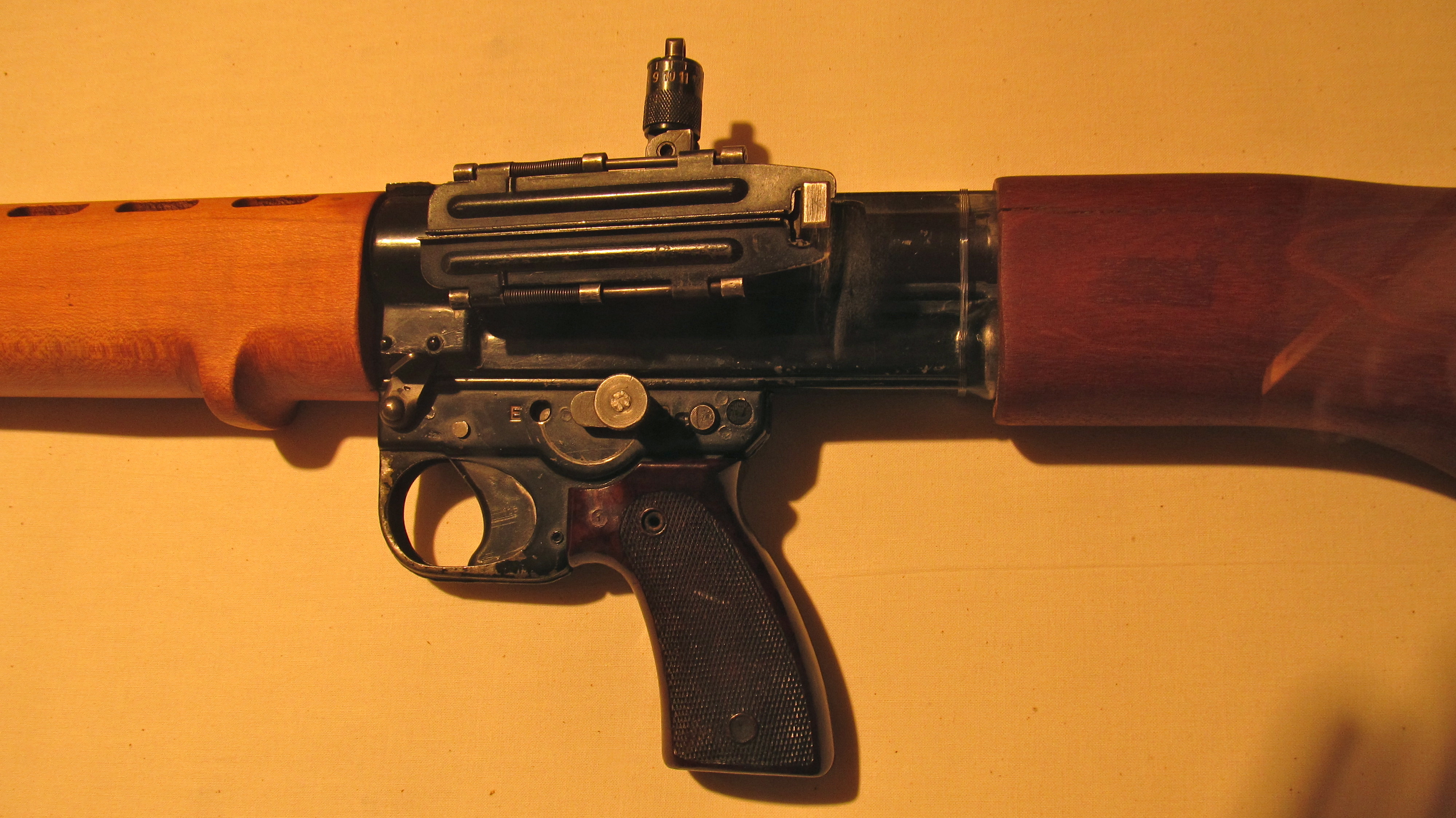 FG42 (late war variant) at Base Borden Military Museum